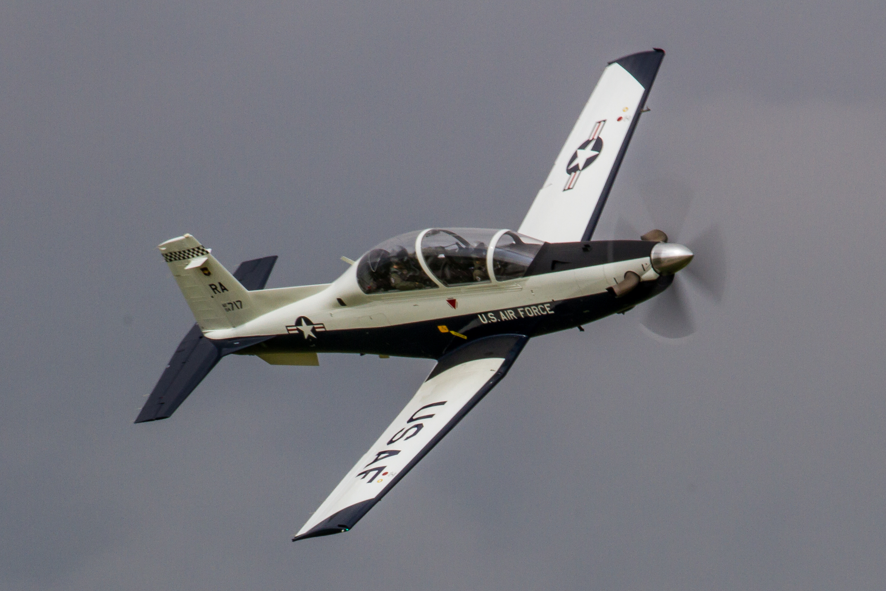 A T-6 Texan II from Randolph Air Force Base at the Take to the Skies Airfest in 2016 in Durant, Oklahoma.